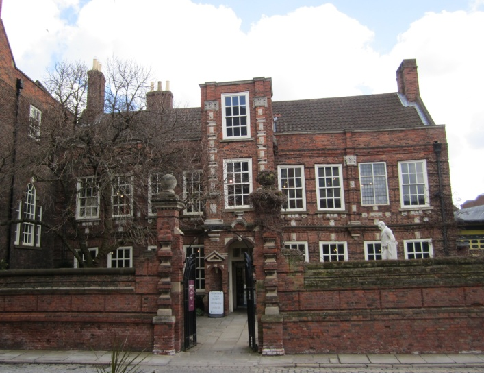 Wilberforce House Museum and Attached Garden Wall